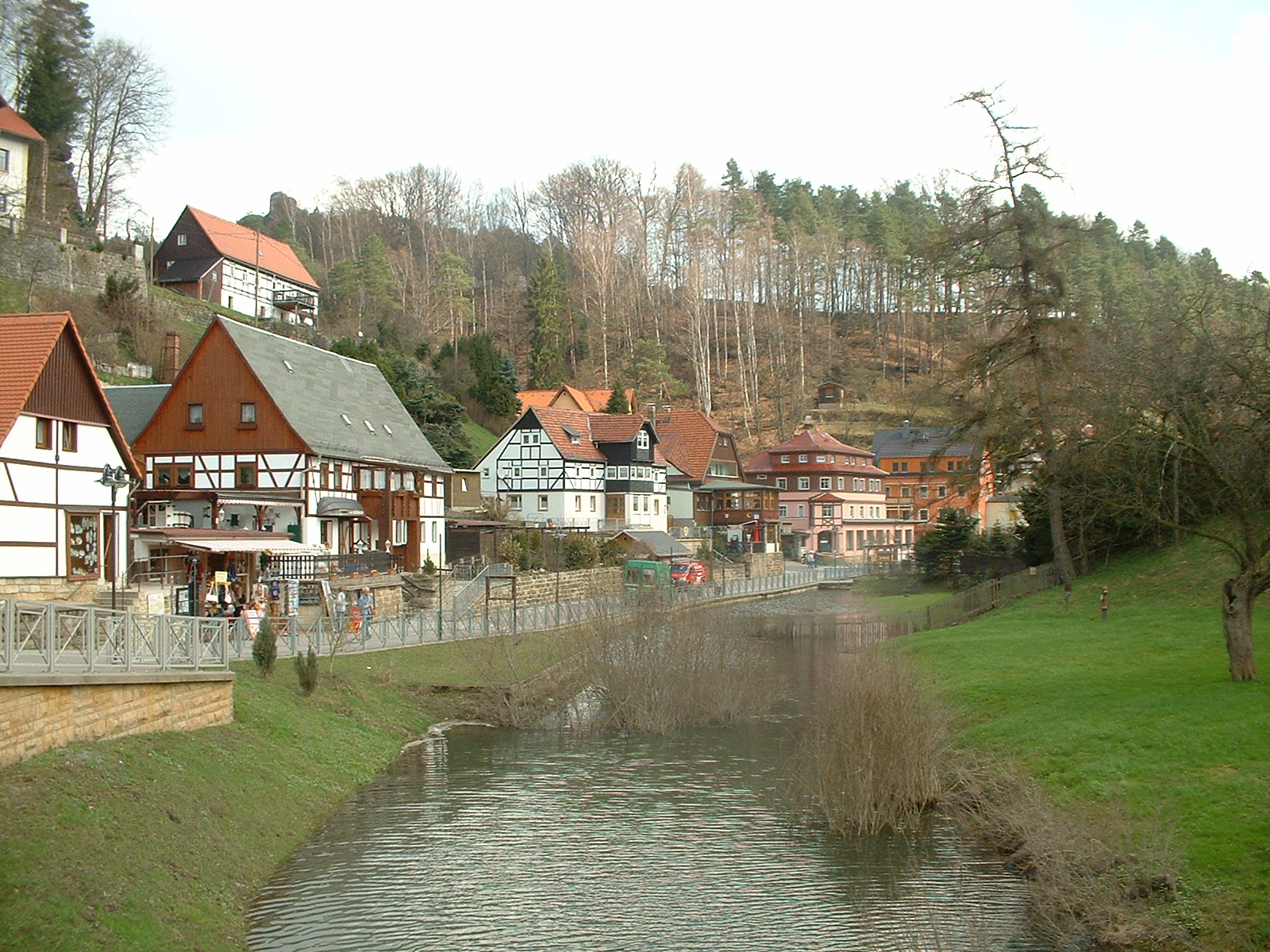 Rathen is a little spa town with less than 500 citizens, located on the river Elbe near Pirna which is in the east of Dresden in Saxon Switzerland.